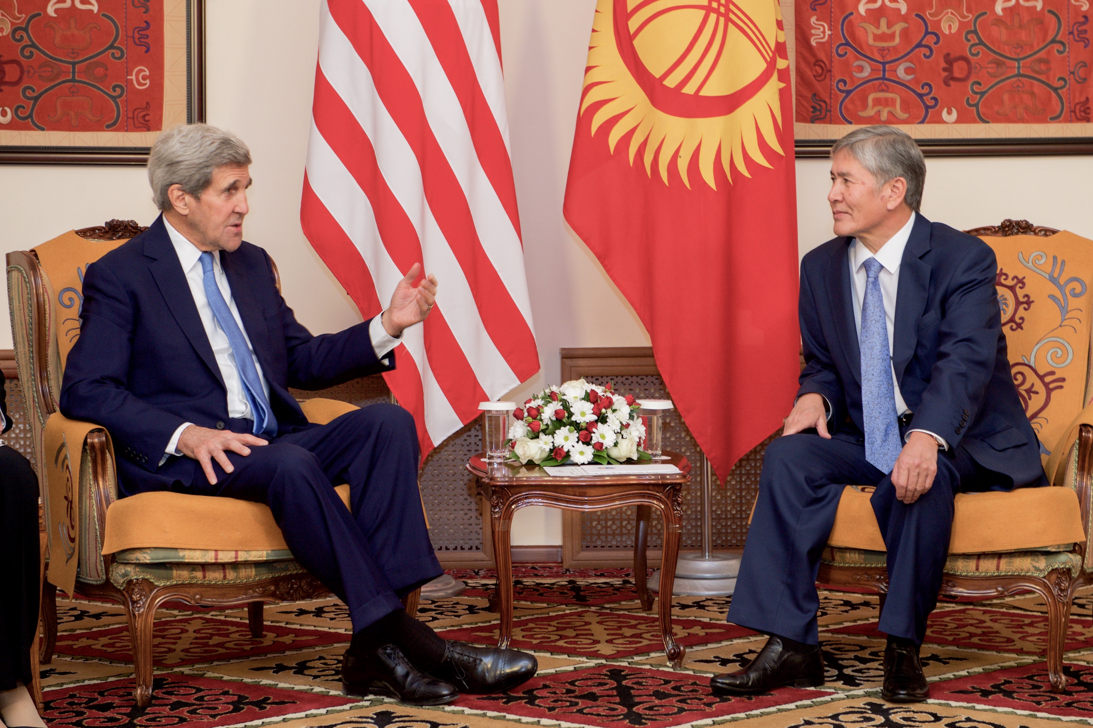 U.S. Secretary of State John Kerry meets with Kyrgyz President Almazbek Atambaev, in Bishkek, Kyrgyzstan, October 31, 2015.